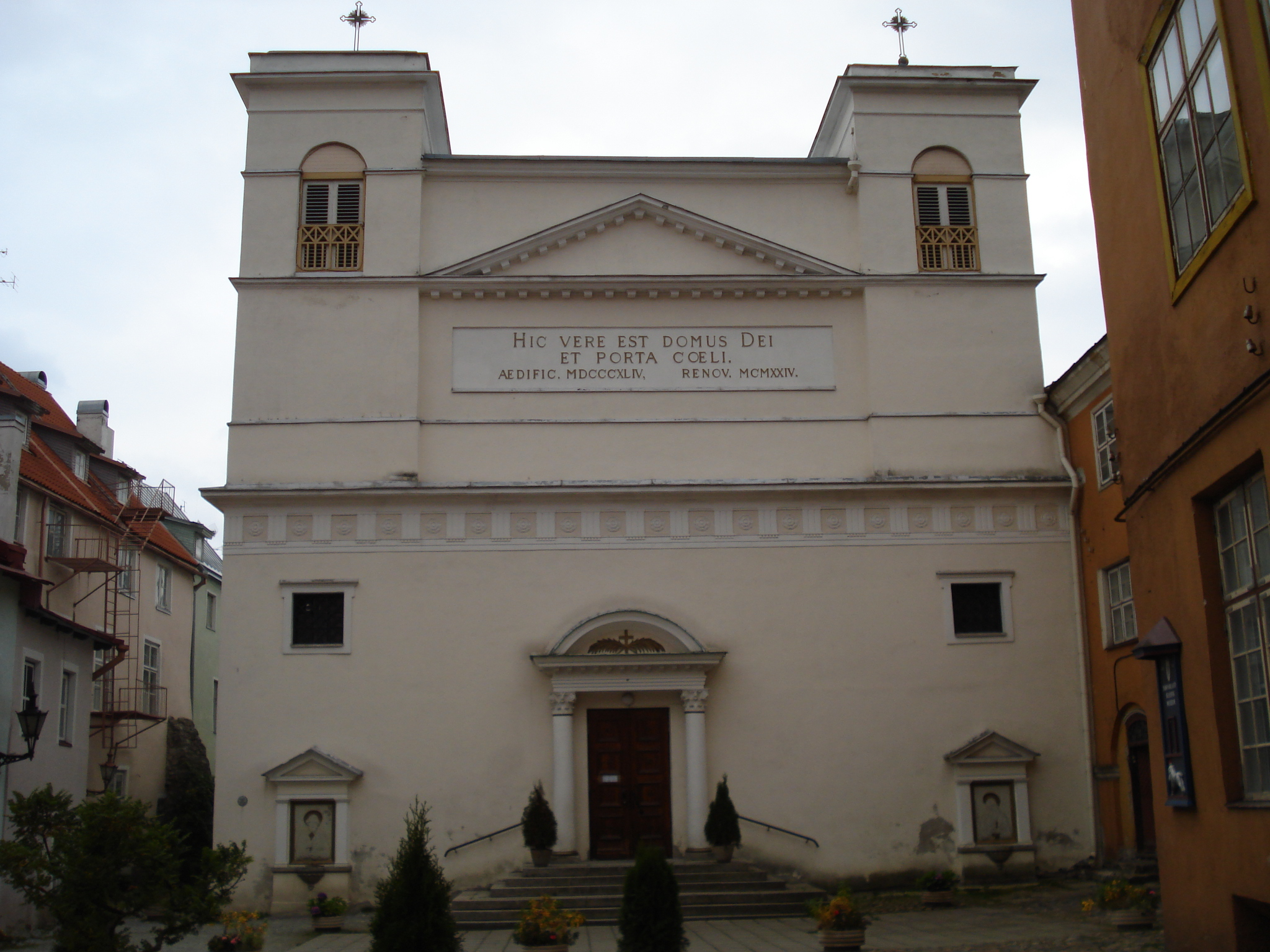 Roman cathilic Church of St Peter and St Paul. Tallinn, Vene 16. A Roman-Catholic pseudo-Gothic church with a neo-Classical facade built in 1844 on the foundation of the former refectory of the medieval Dominican monastery